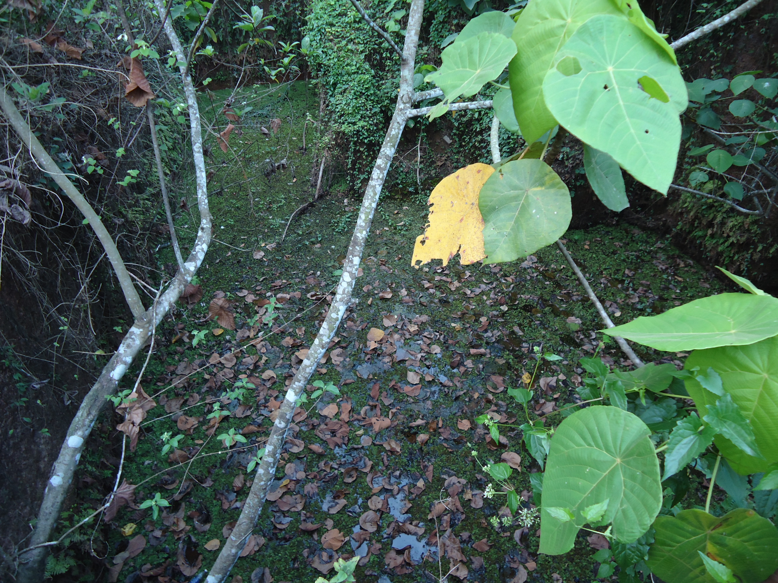 Pottakulam - A pond with bad water in kerala